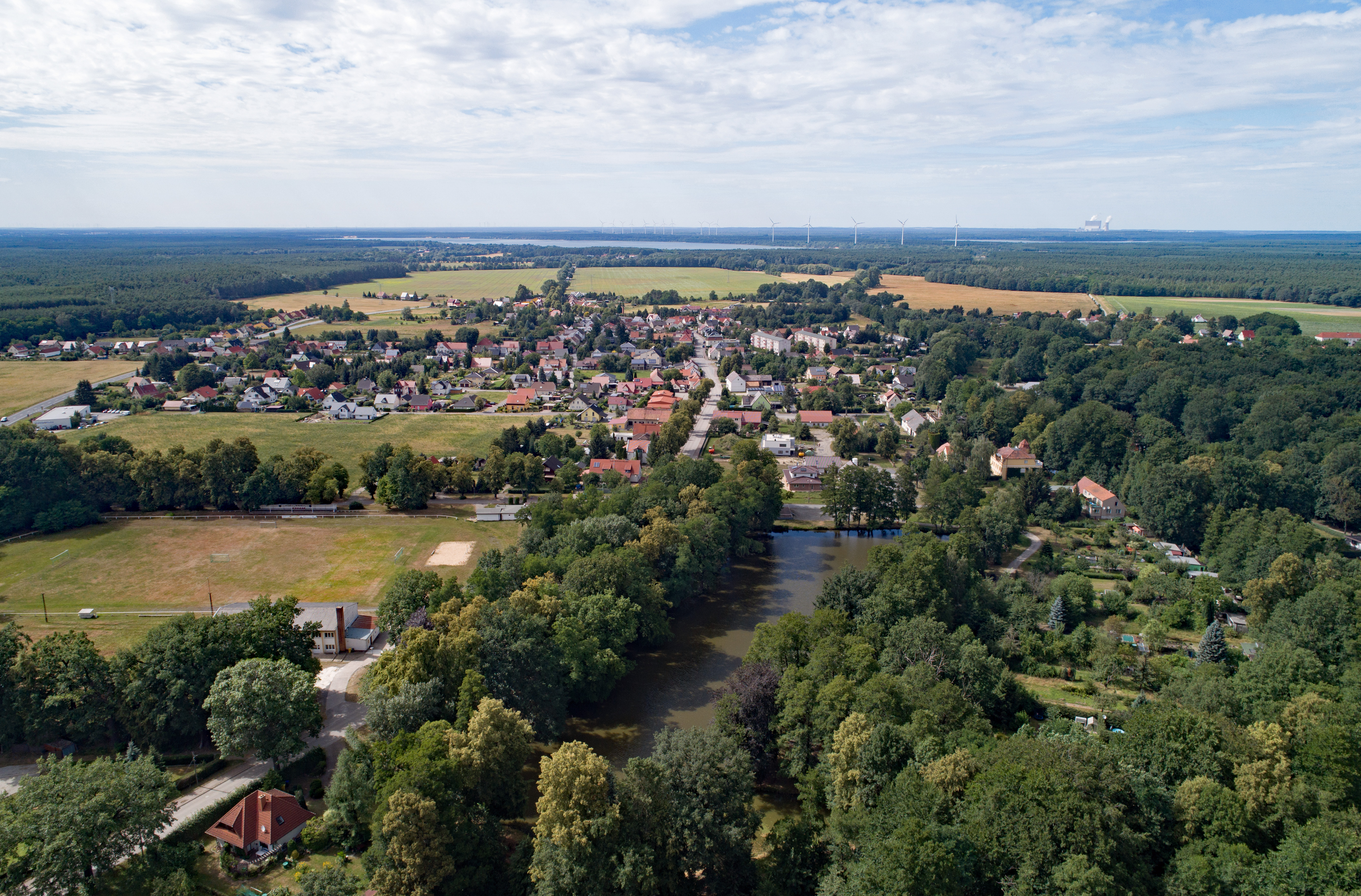 Weißkollm (Lohsa, Saxony, Germany) Hornjoserbsce: Powětrowy wobraz Běłeho Chołmca